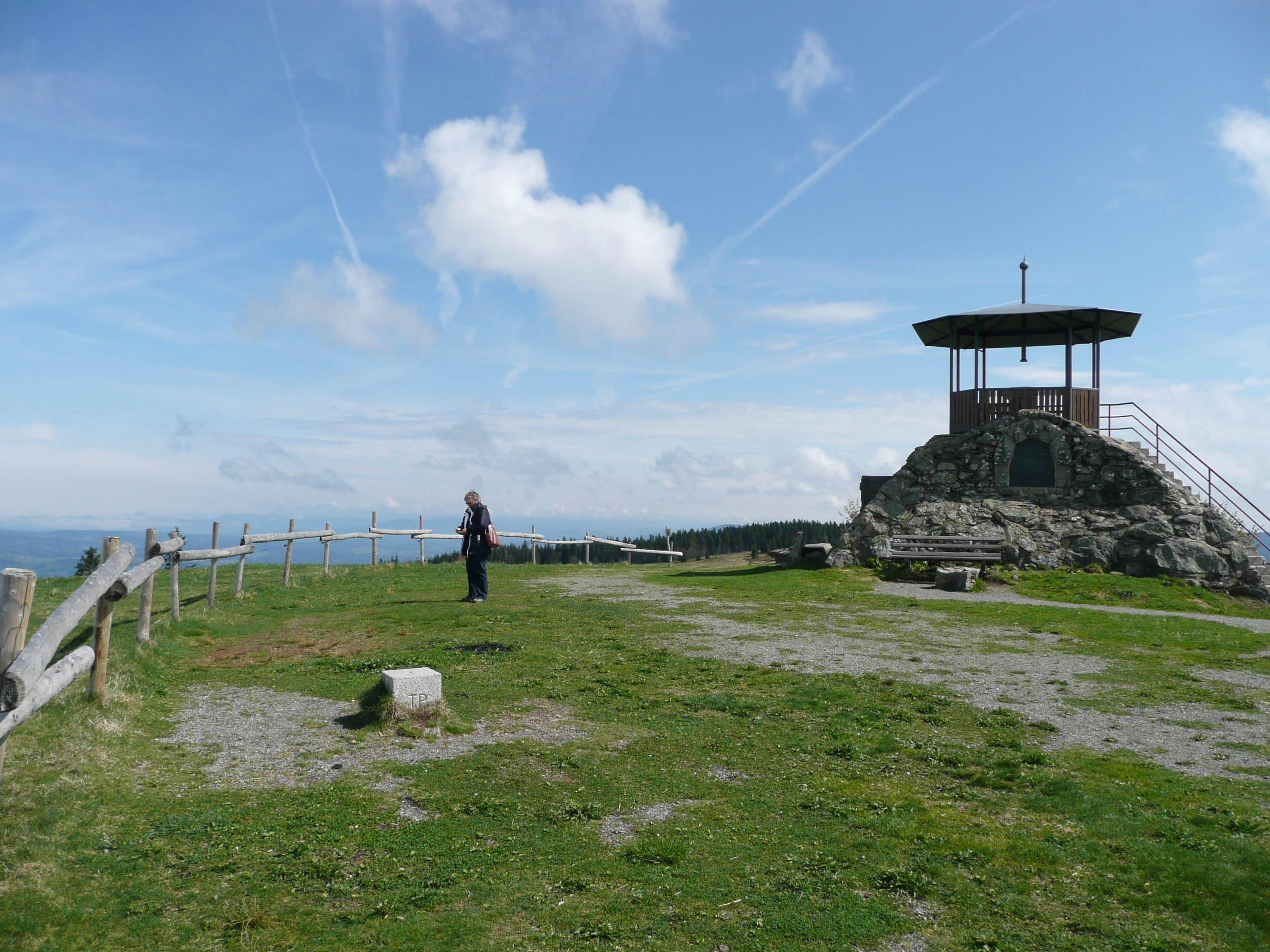 on top of the Kandel (1241 m).